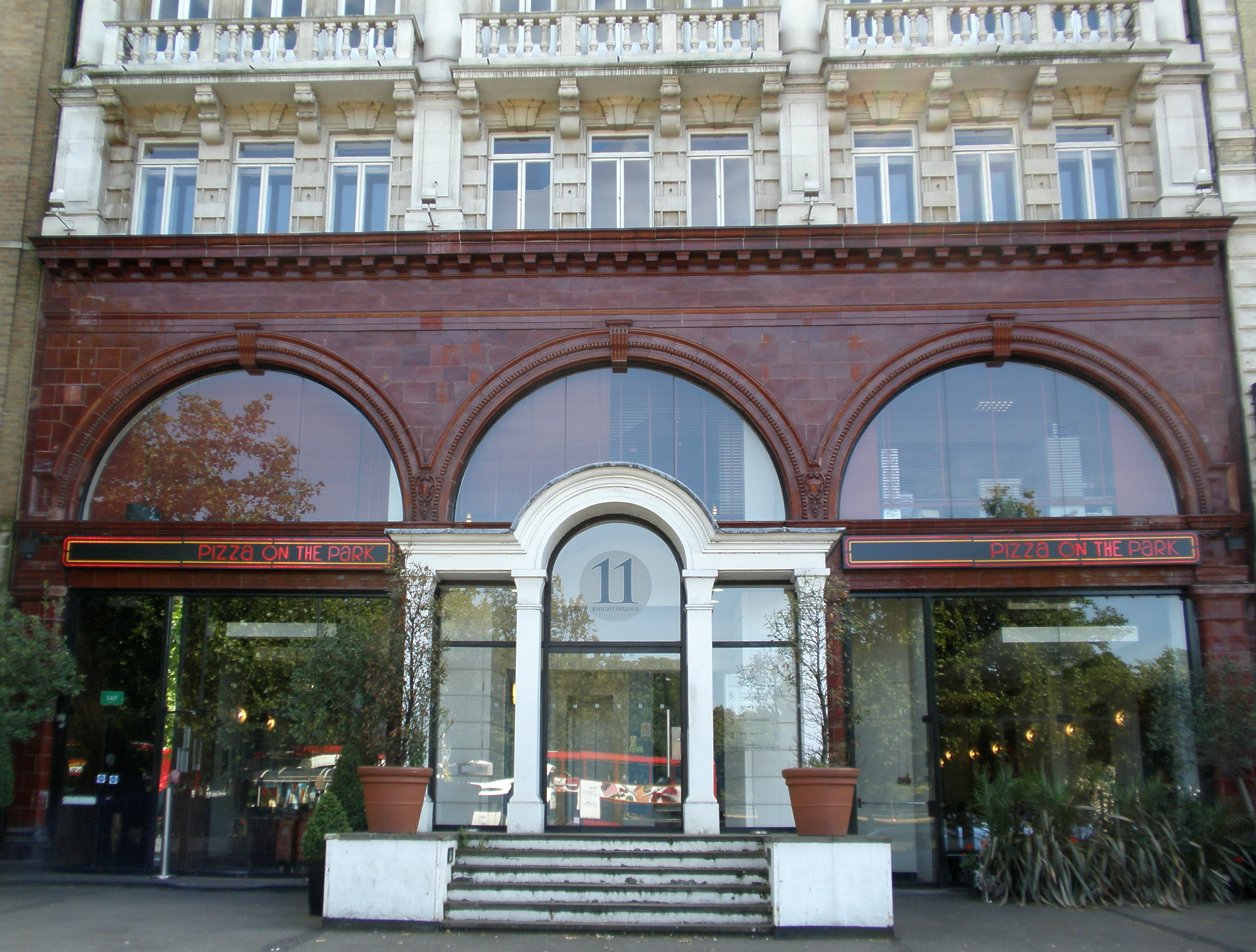 This surely was once a Tube Station Entrance? Oh yes...so it was.... Hyde Park Corner station was opened by the Great Northern, Piccadilly and Brompton Railway on 15 December 1906. The original, Leslie Green-designed station building still remains to the south of the road junction, notable by its ox-blood coloured tiles; it is currently used as a pizza restaurant.